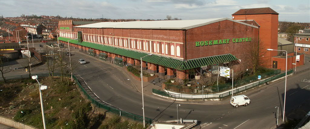 Mansfield Rosemary Centre shopping arcade with car park at rear, at the edge of the town's shopping area. Situated on the ground floor of a former weaving mill - Lawn Mills, which retains industrial use on the upper floors - with a covered walkway linking the retail outlets. To the left off-picture is the old Tesco, sub-divided into three retail units and let by 2013, and the old bus station, a temporary car park intended for retail development. The gulley with scrub vegetation is part of the pedestrian walkway and road underpass system, also intended for eventual retail use.